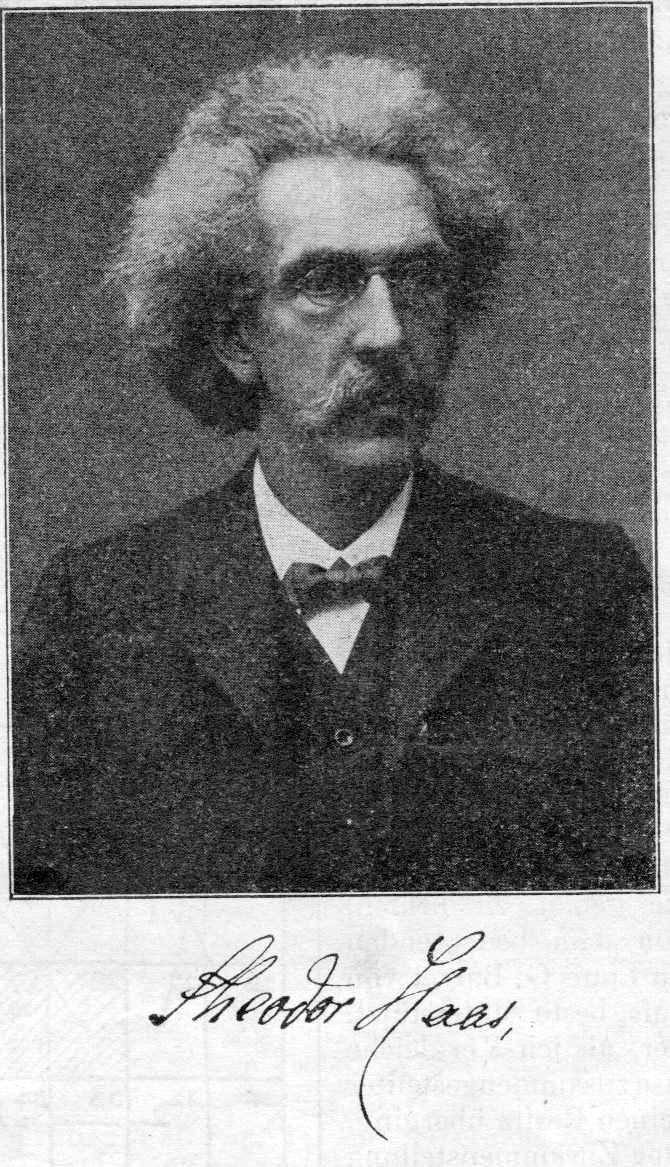 Theodor Haas: Author and Philatelist